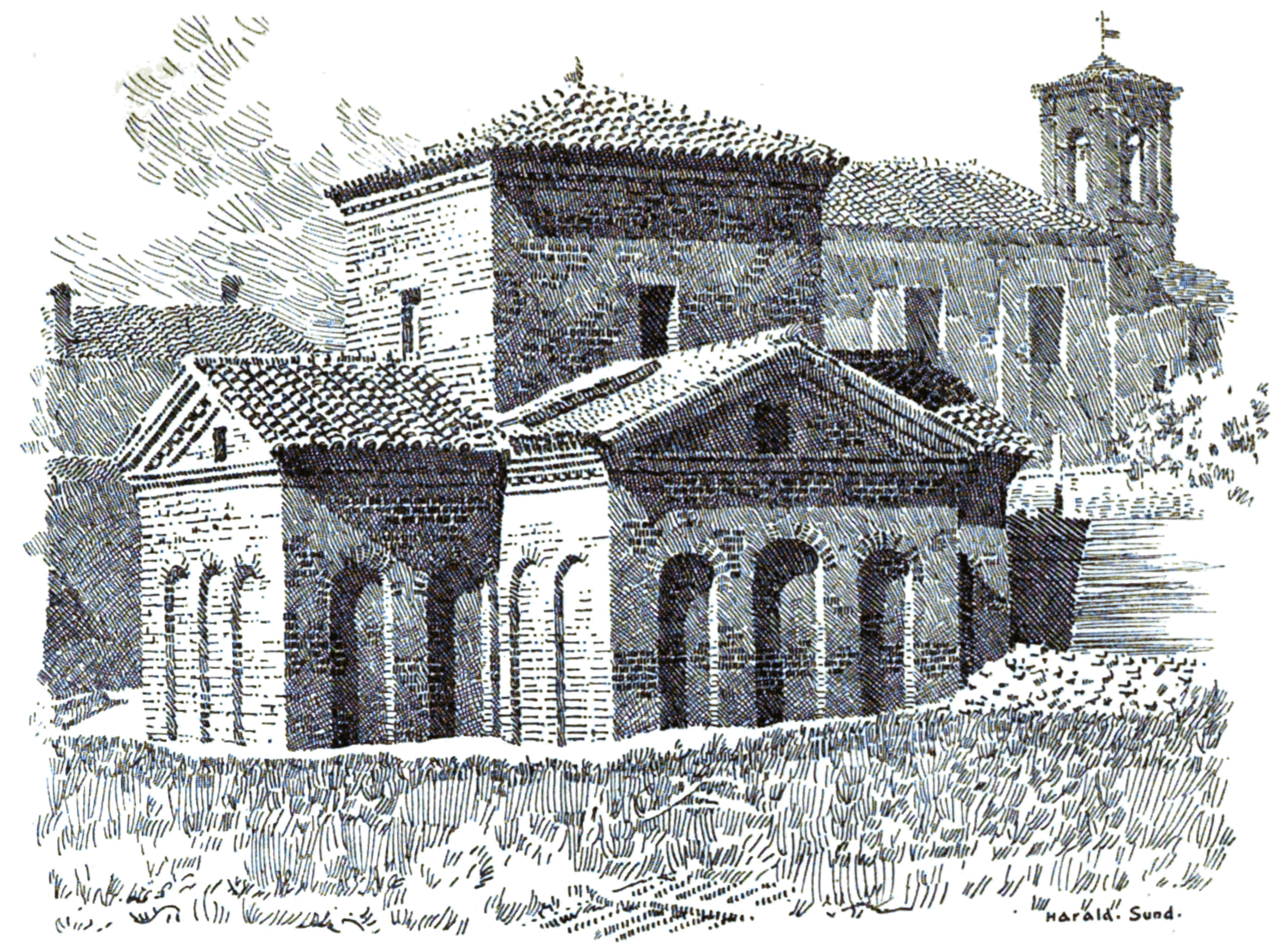 The building commonly known as the Mausoleum of Galla Placidia in Ravenna, in drawing by Harald Sund. This work was used as illustration in Ravenna: A study, by Edward Hutton, published in 1913.